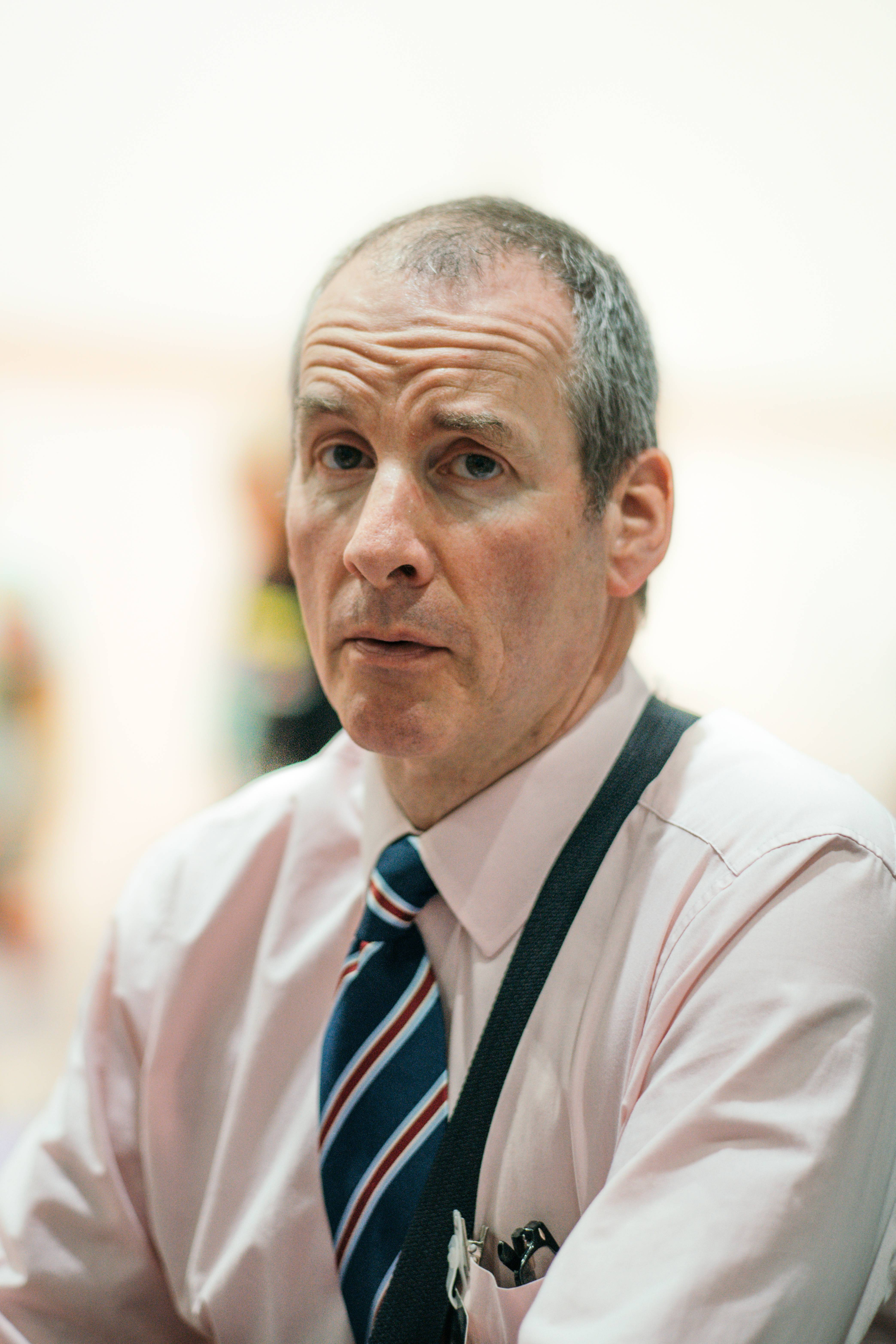 Chris Barrie at Comic Con, MCM May 2017